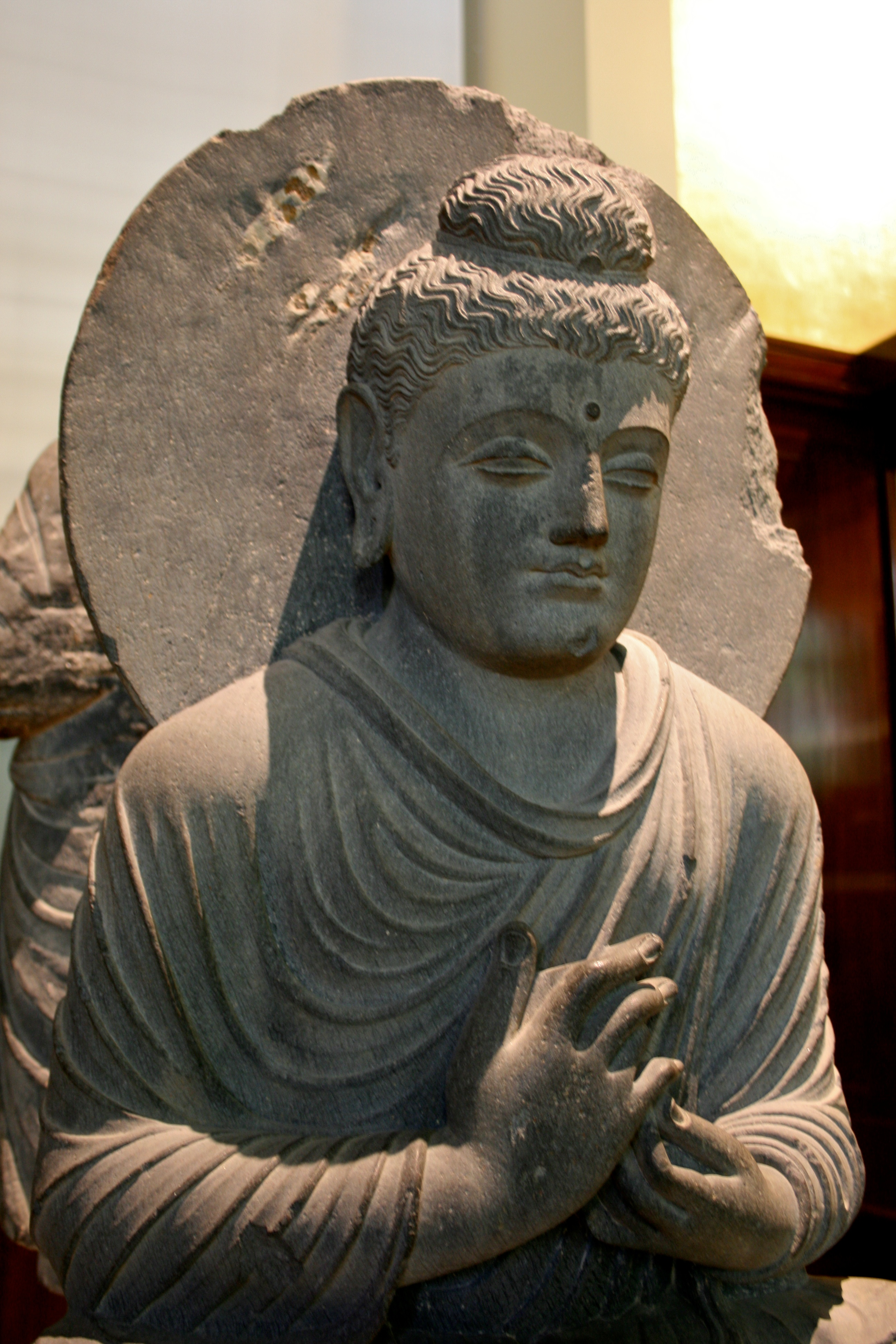 Seated Buddha from Gandhara. Object 41 of 100. OA 1895.10-26.1 In the British Museum.